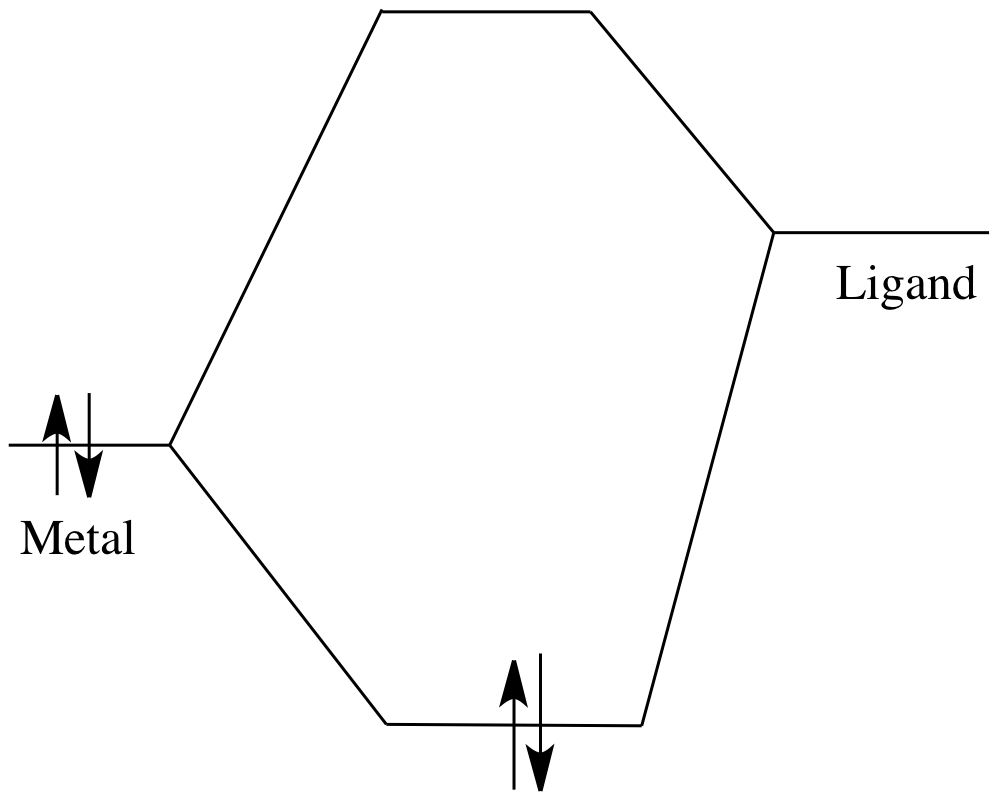 Molecular orbital diagram showing the electron-donating metal binding to an electron deficient Z-ligand.